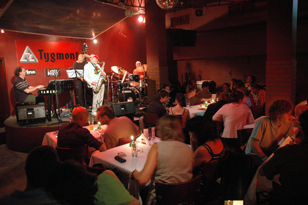 The most popular jazz club of Warszawa called Tygmont. Photograph by Henryk Kotowski in July 2006.